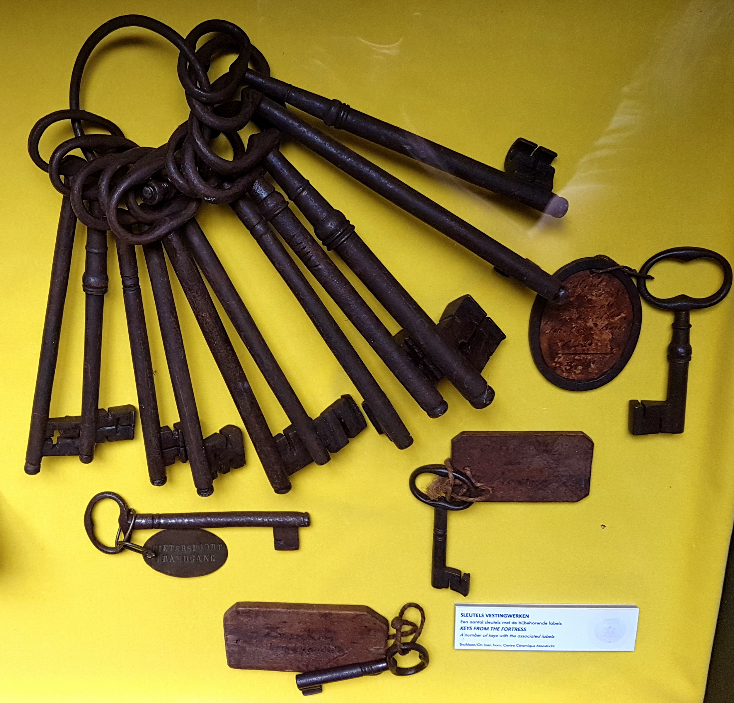 Keys of city gates and other fortifications in Maastricht, now in the local history collection of Centre Céramique, Maastricht, the Netherlands. Photographed at a temporary exhibition in the east corridor of the cloisters of the Basilica of Saint Servatius in Maastricht.